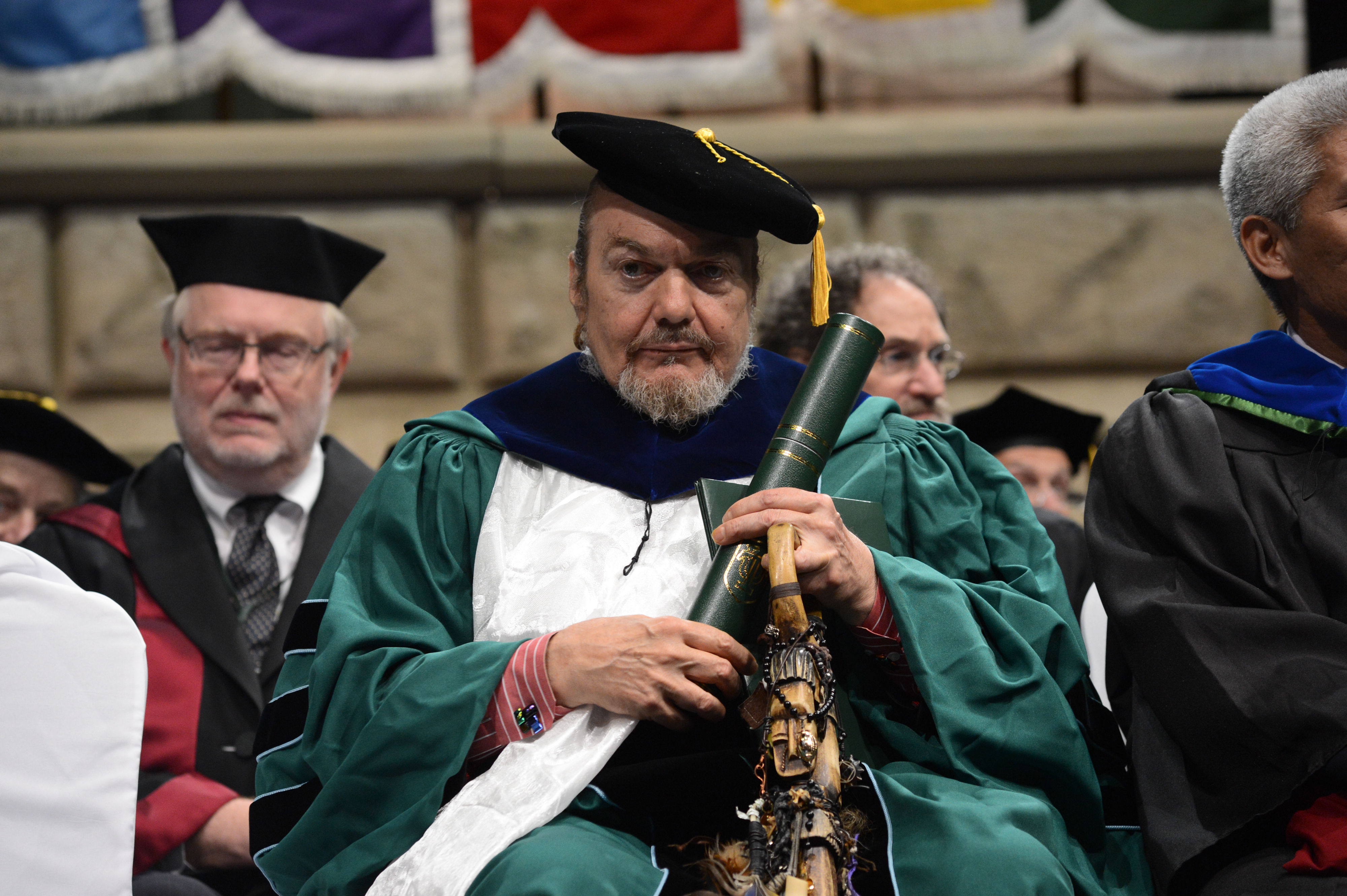 Dr. John received an Honorary Doctorate from Tulane University